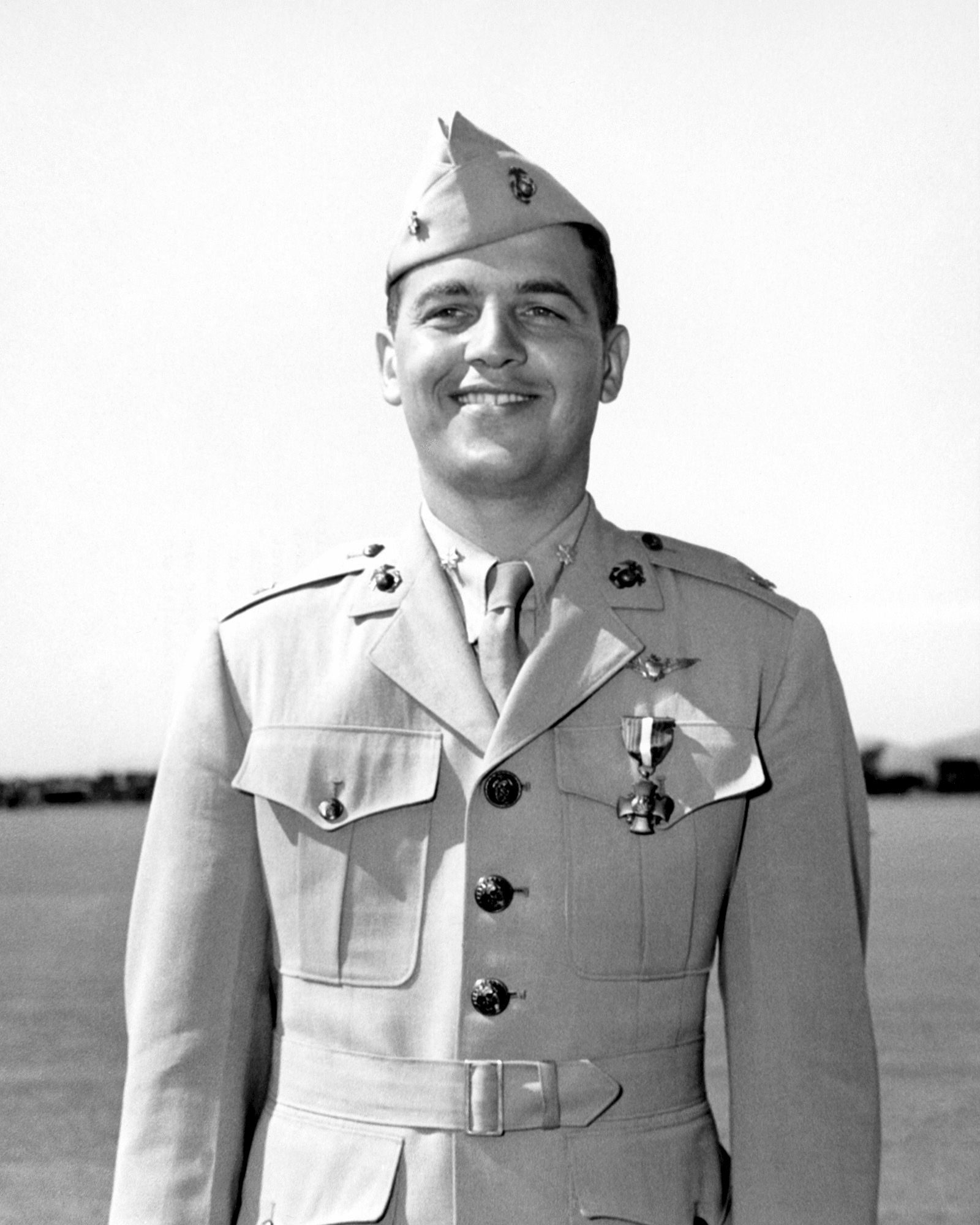 World War II (WWII) area photograph of US Marine Corps (USMC) Major (MAJ) George C. Axtell, Commanding Officer, Second Marine Air Wing Fighter Squadron, the "Death Rattlers". This photograph was taken at Marine Corps Air Depot, Miramar, California (CA). MAJ Axtell was awarded the Navy Cross and is an ace pilot credited with 6 kills. His hometown is Baden, Pennsylvania.